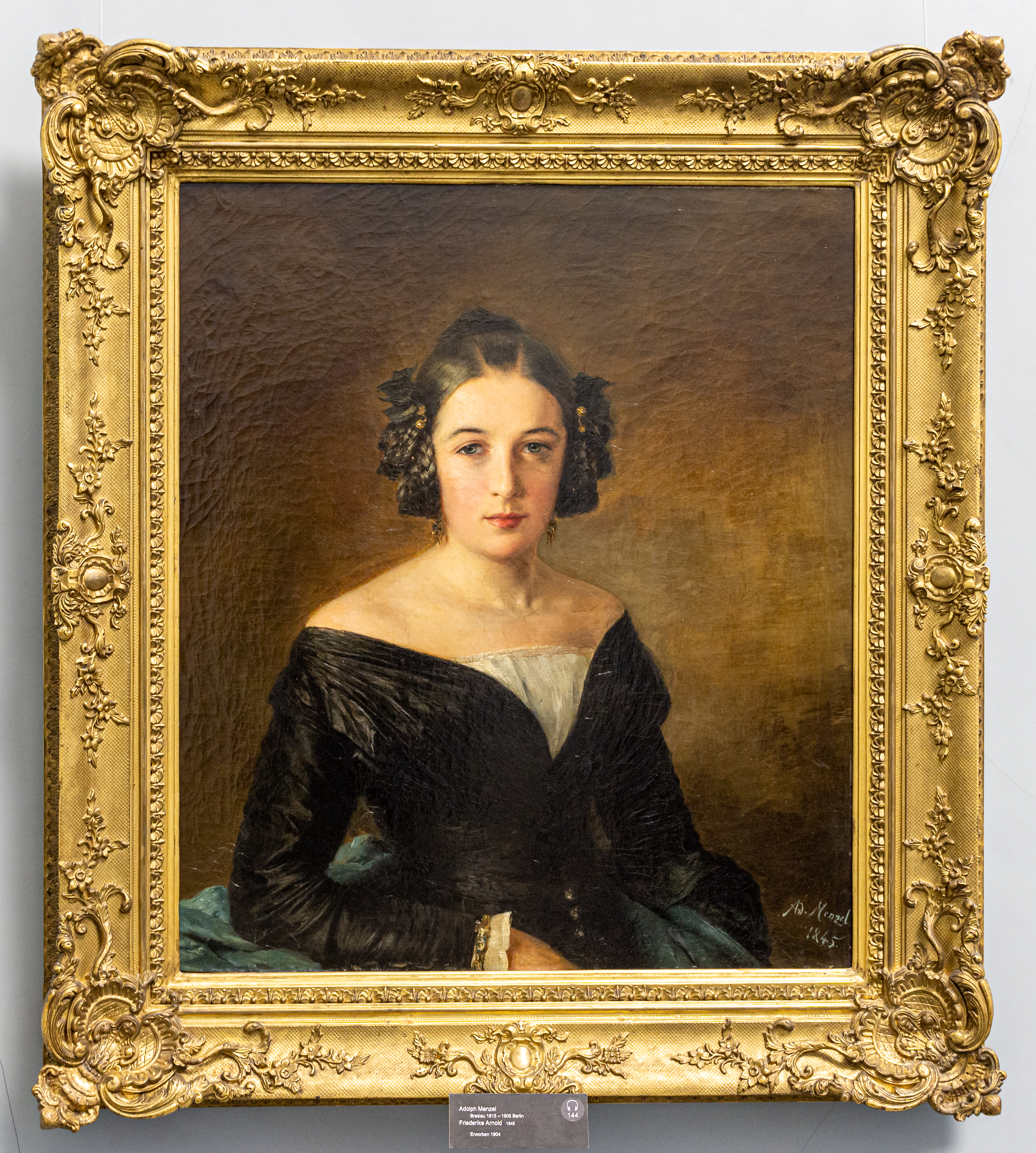 Friederike Arnold